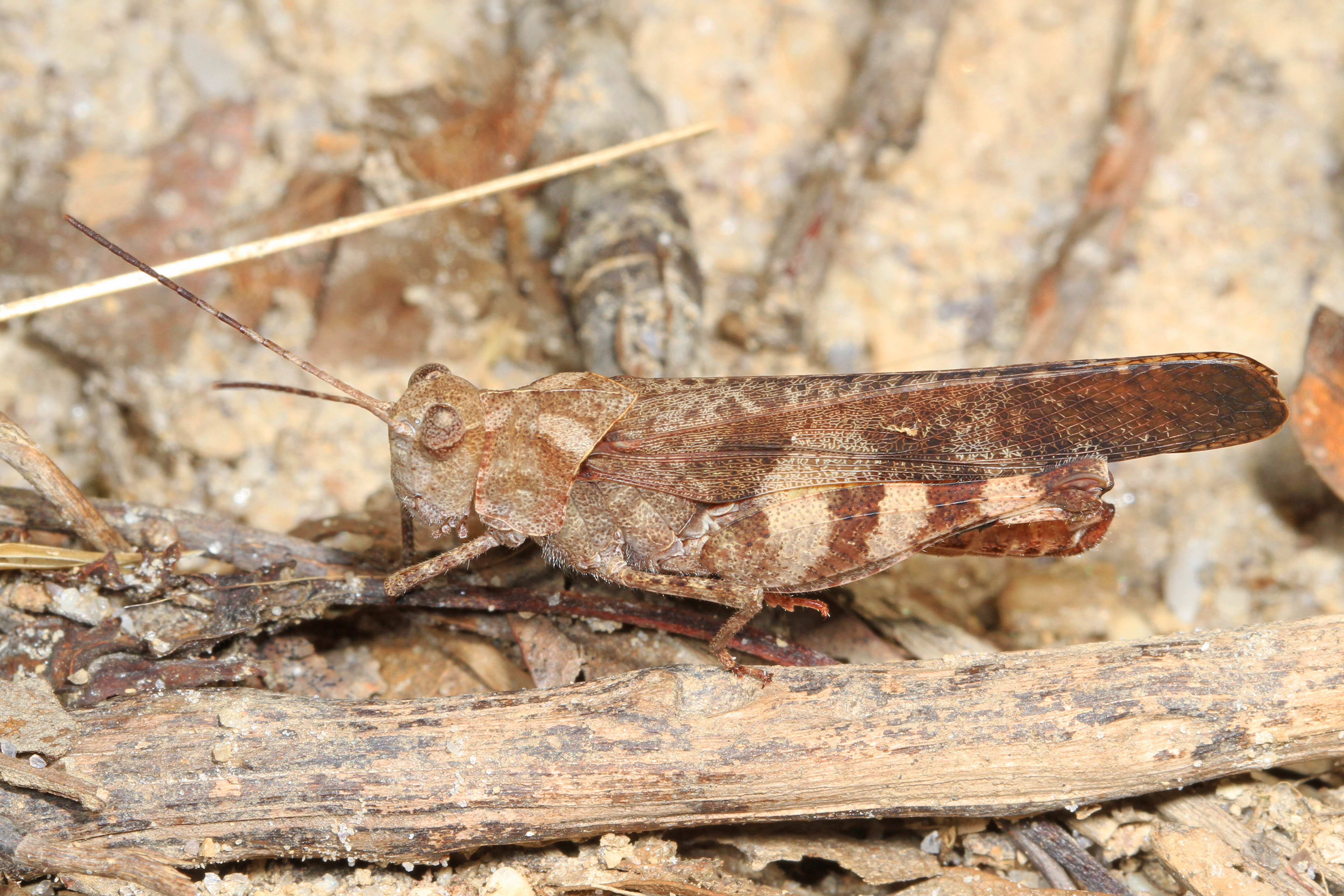 Boll's Grasshopper - Spharagemon bolli, Prince William Forest Park, Triangle, Virginia